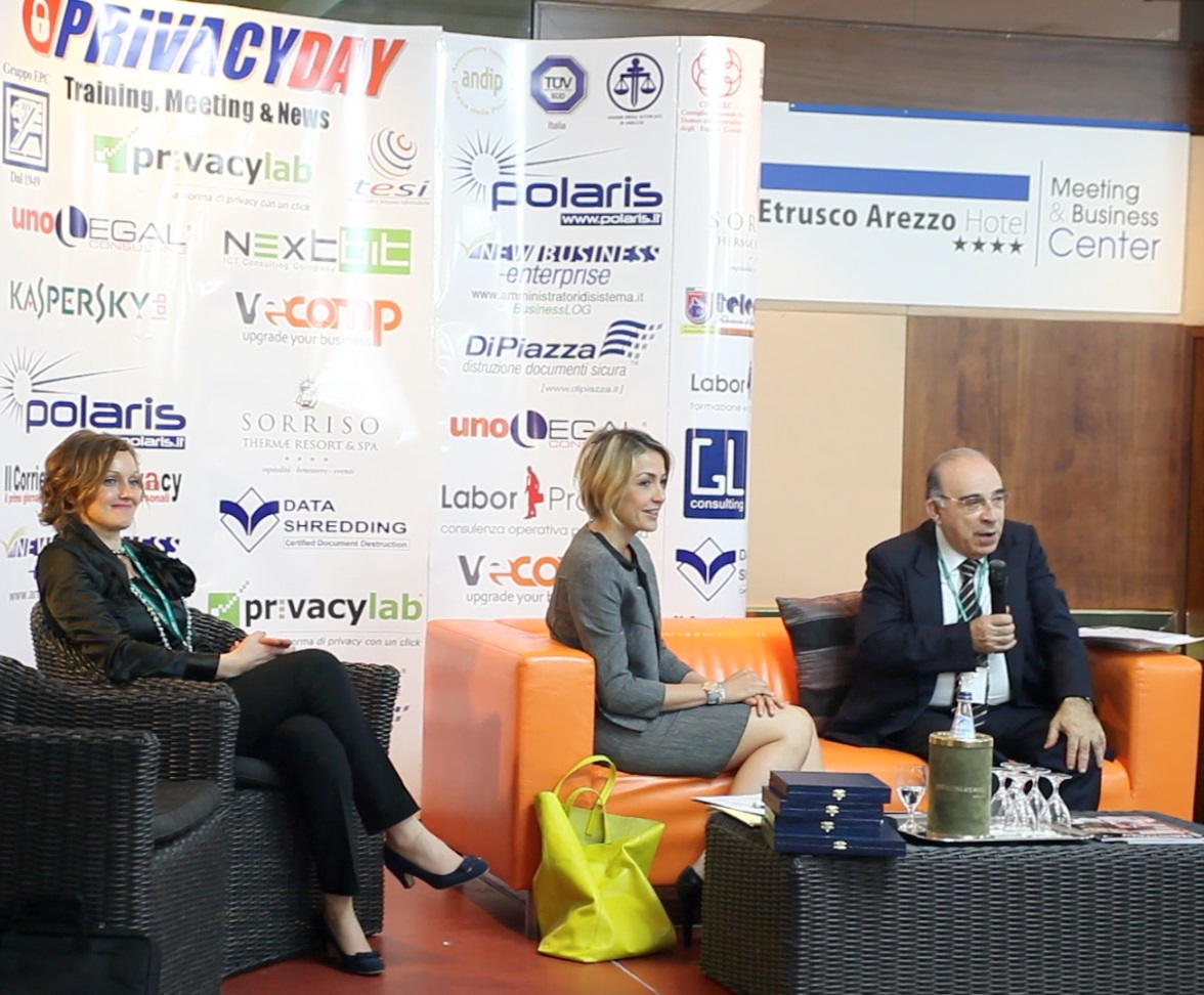 Il tesoriere di Federprivacy Magdalena Todor, con Francesca Senette e Giuseppe Chiaravalloti al Privacy Day Forum 2012